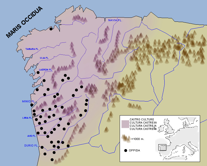 Castro culture extension and geografy, and second century BCE oppida (after Rodríguez Corral, J. A Galicia Castrexa, Santiago de Compostela, 2009. ISBN 978-84-936613-3-5, particularly p. 68).